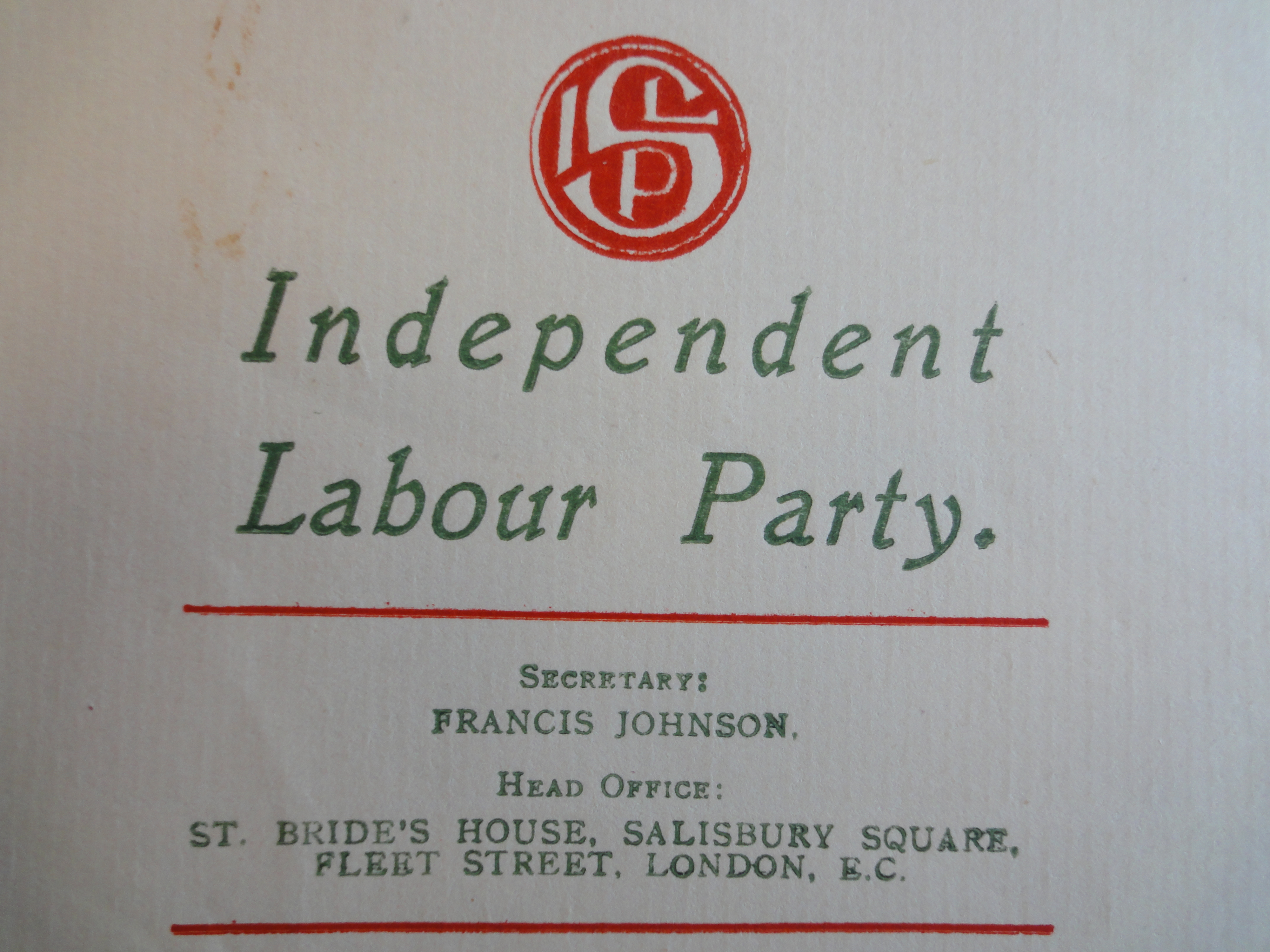 Heading of an ILP letter